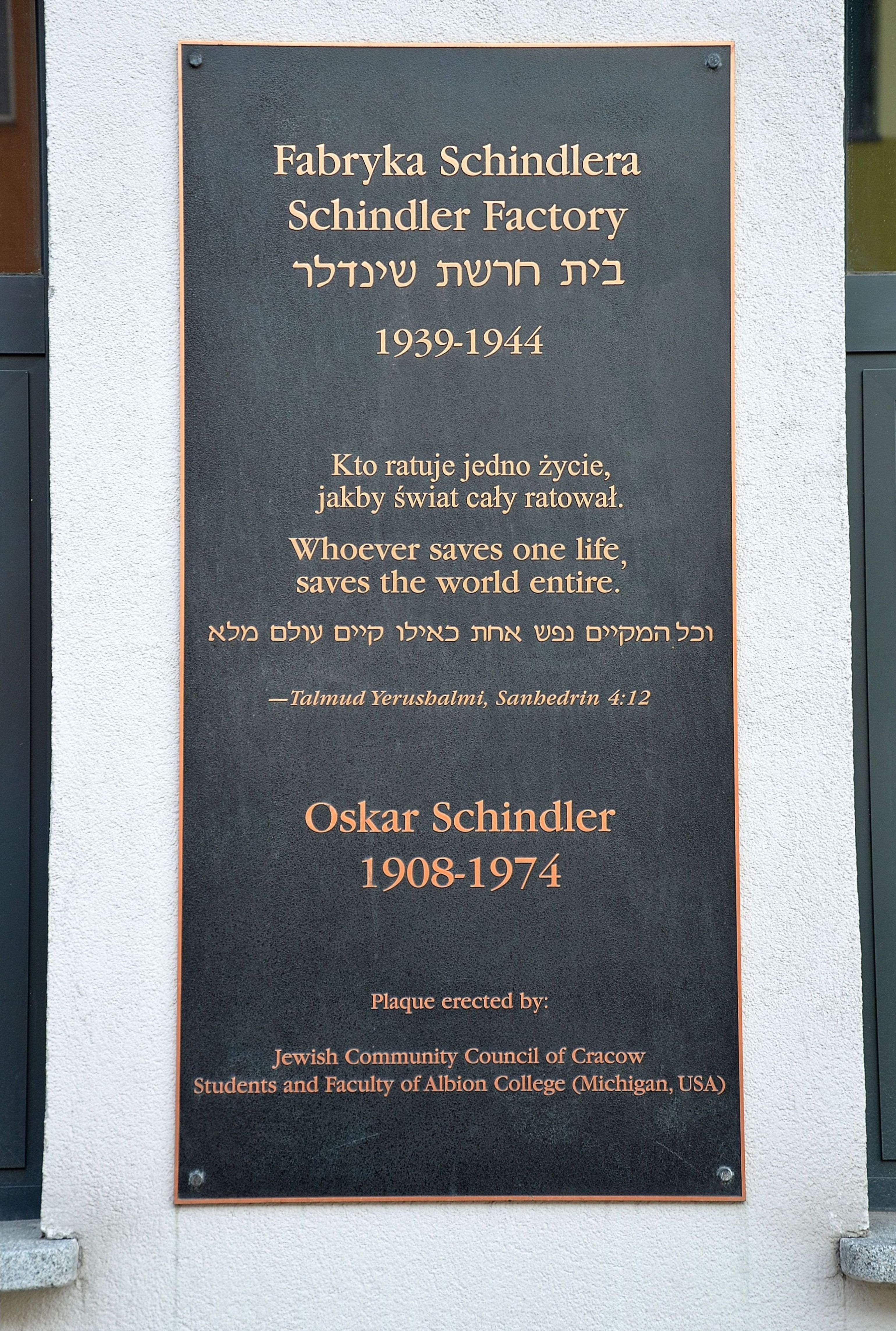 Commemorative plaque close to the entrance to Schindler's Emalia Factory in Kraków